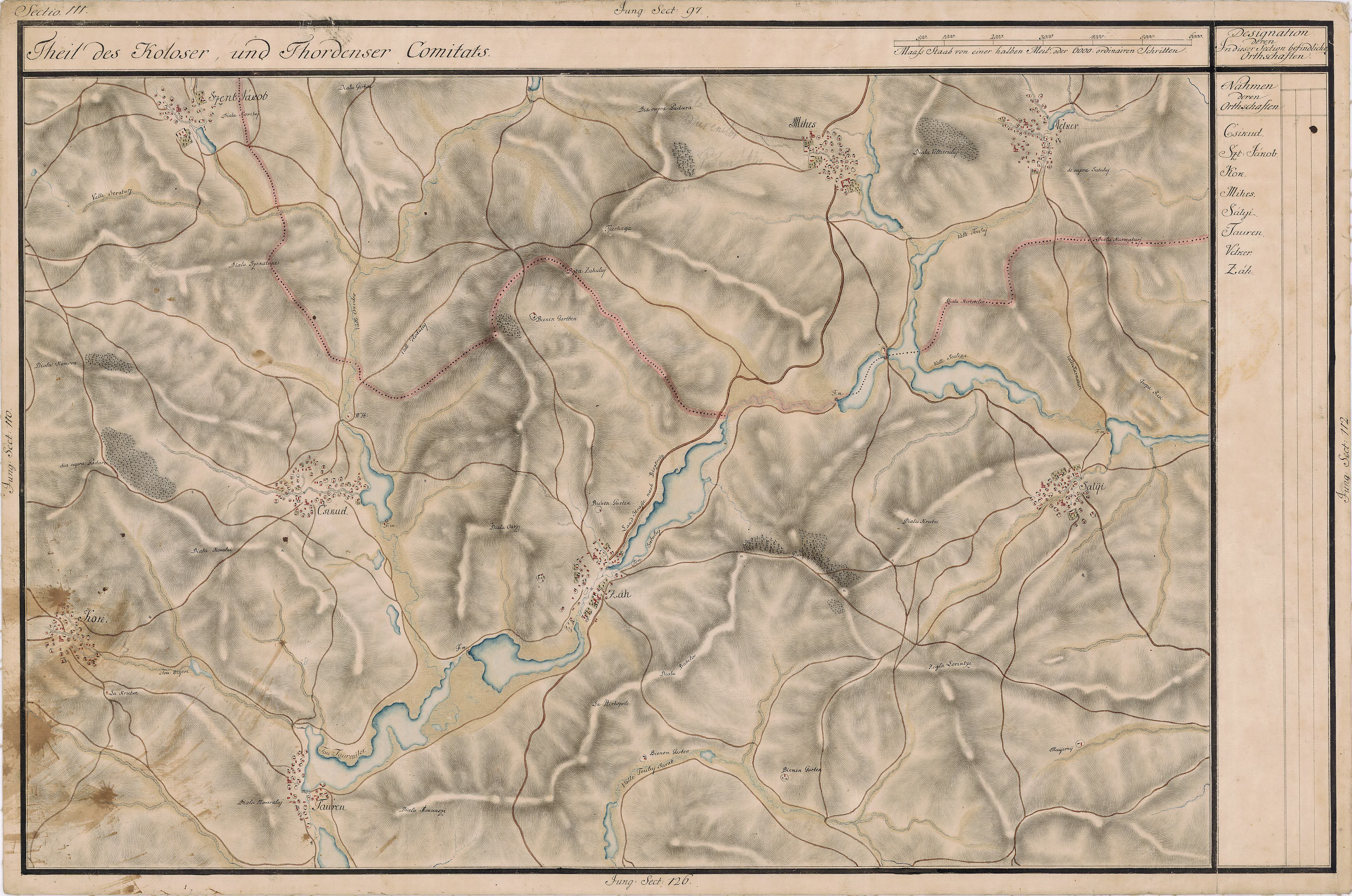 Grand Duchy of Transylvania, 1769-1773. Josephinische Landaufnahme pg.111